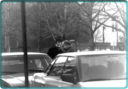 Tommy "Horsehead" Scafidi talks to former mob boss John Stanfa in an FBI surveillance photo introduced during the Merlino Trial.